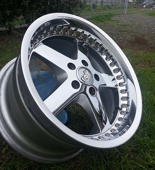 Work Wheels Equip Model